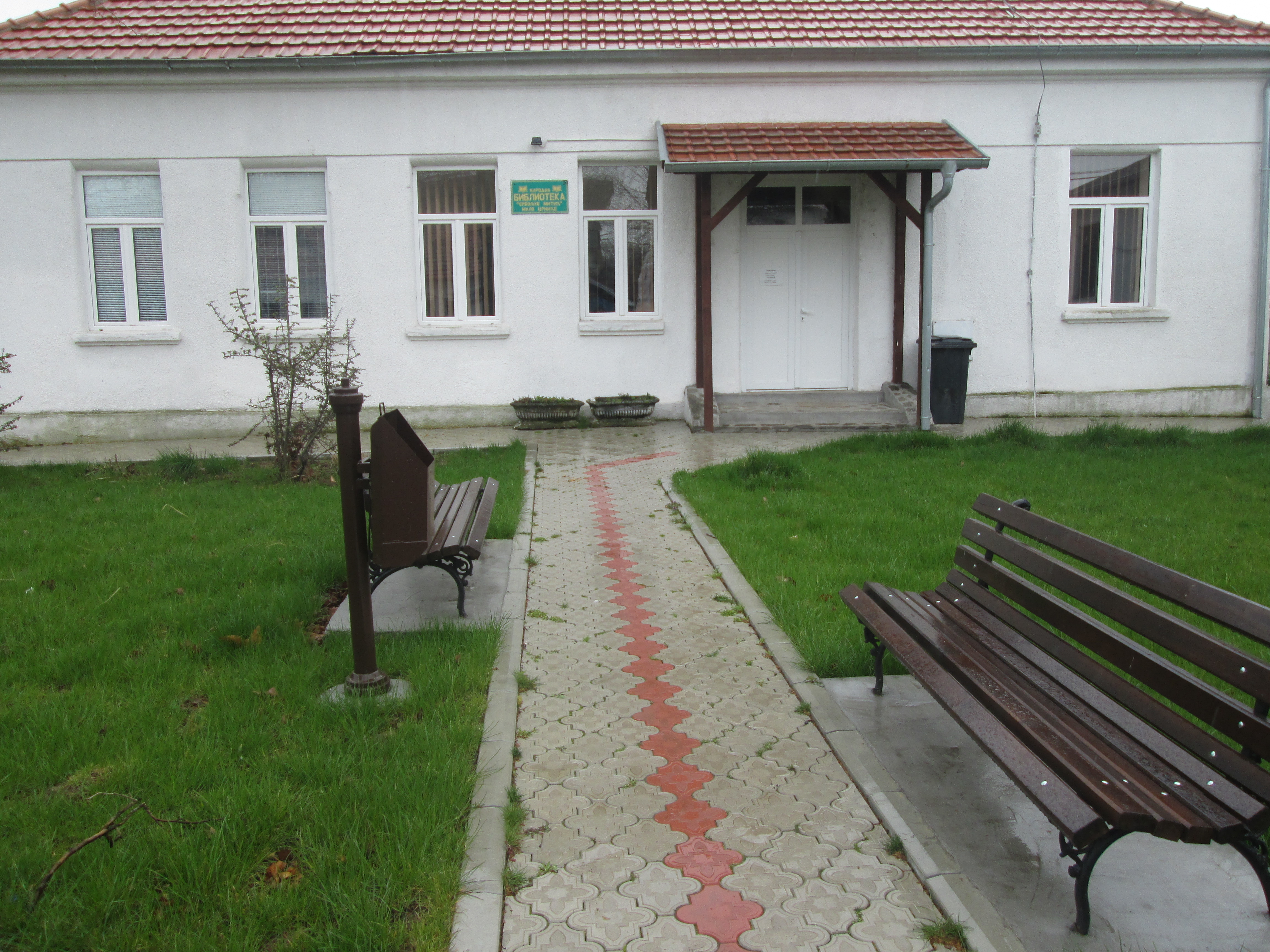 Library Srboljub Mitić - Malo Crniće